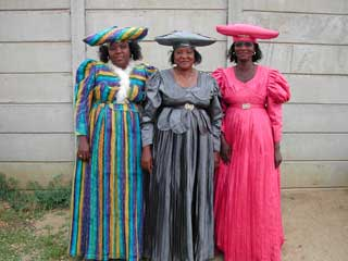 A group of Herero women, Windhoek, Namibia.